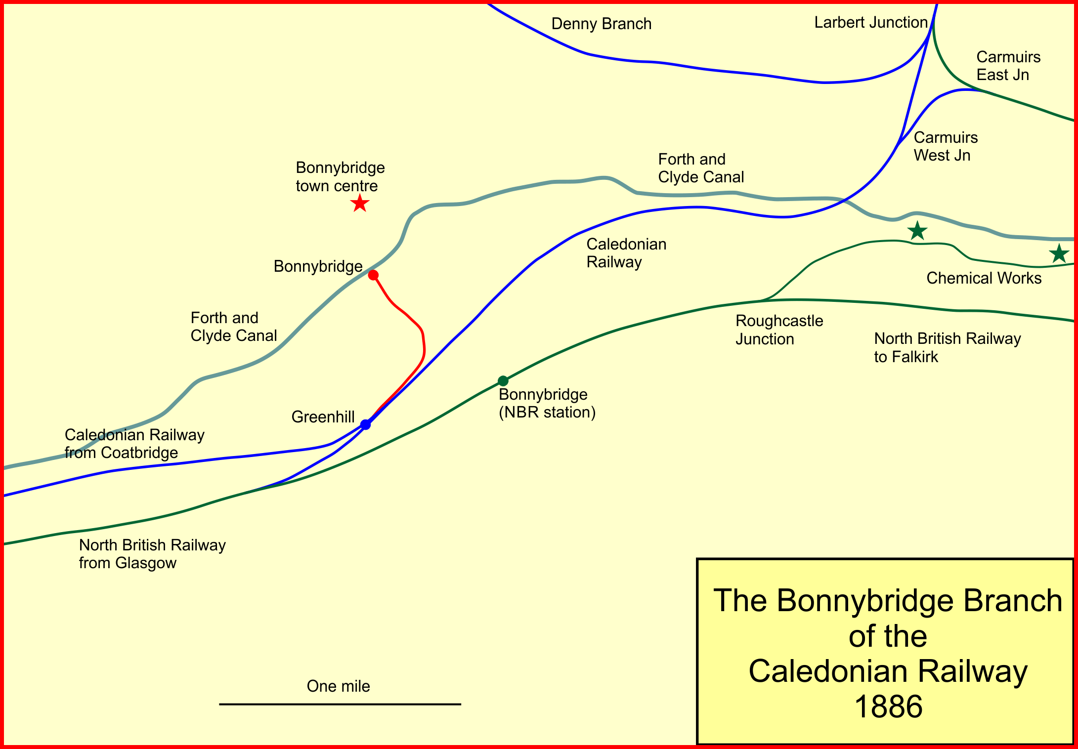 System map of the Bonnybridge branch of the Caledonian Railway, Scotland